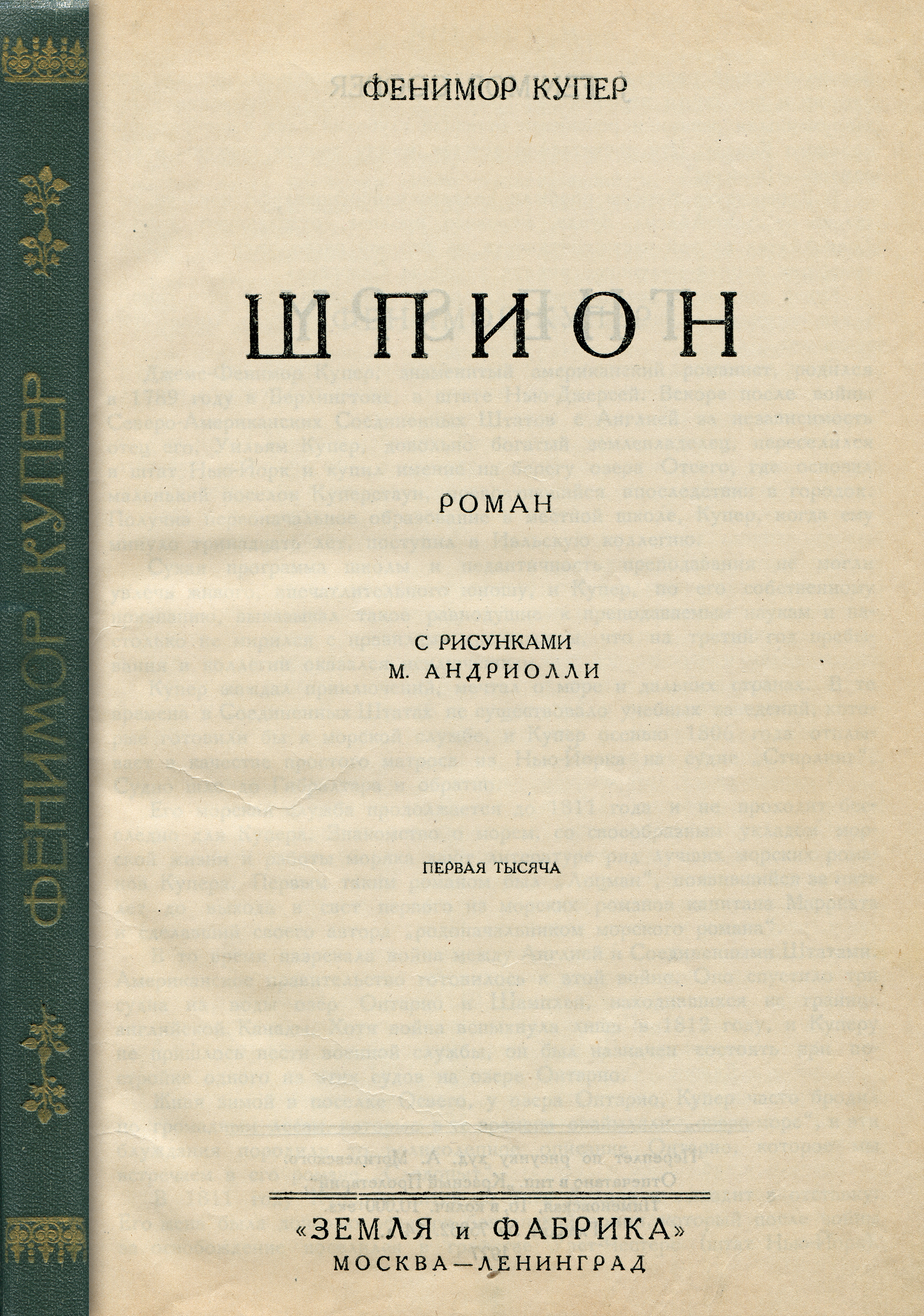 James Fenimore Cooper. Book - the spy. USSR 1927 year.